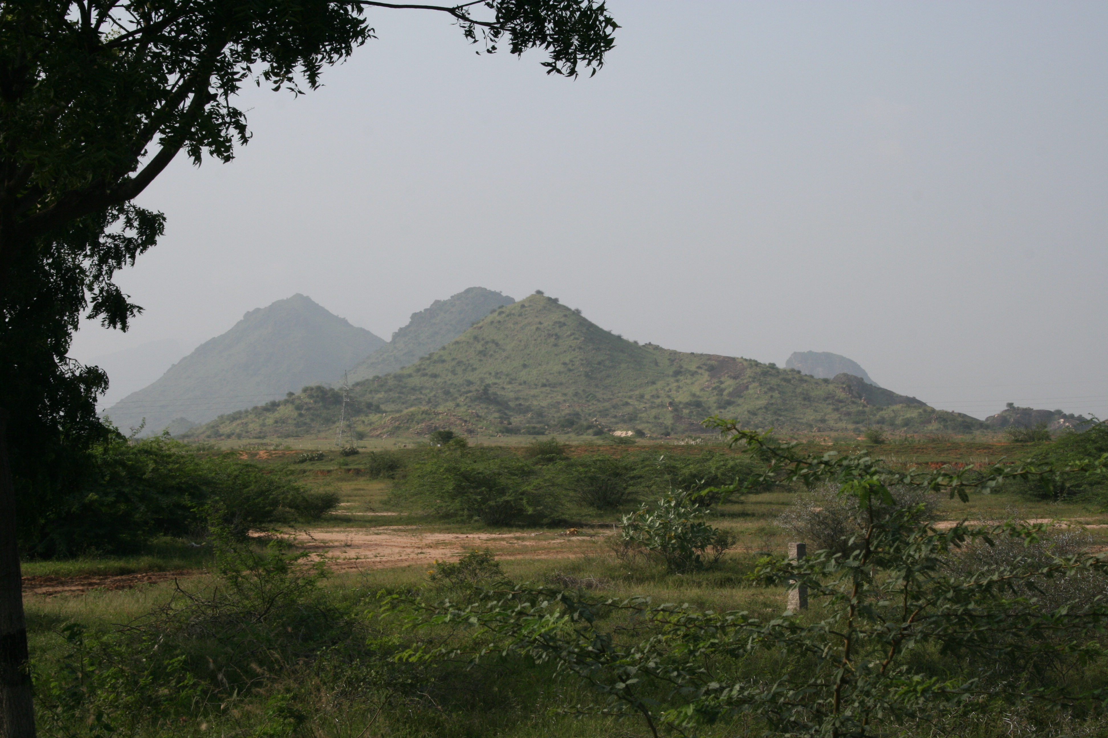 Small hills near Kalakkad